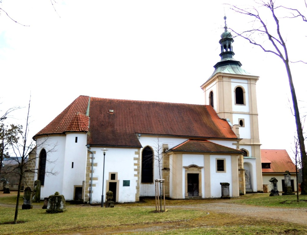 Mladá Boleslav, former St. Gallus church